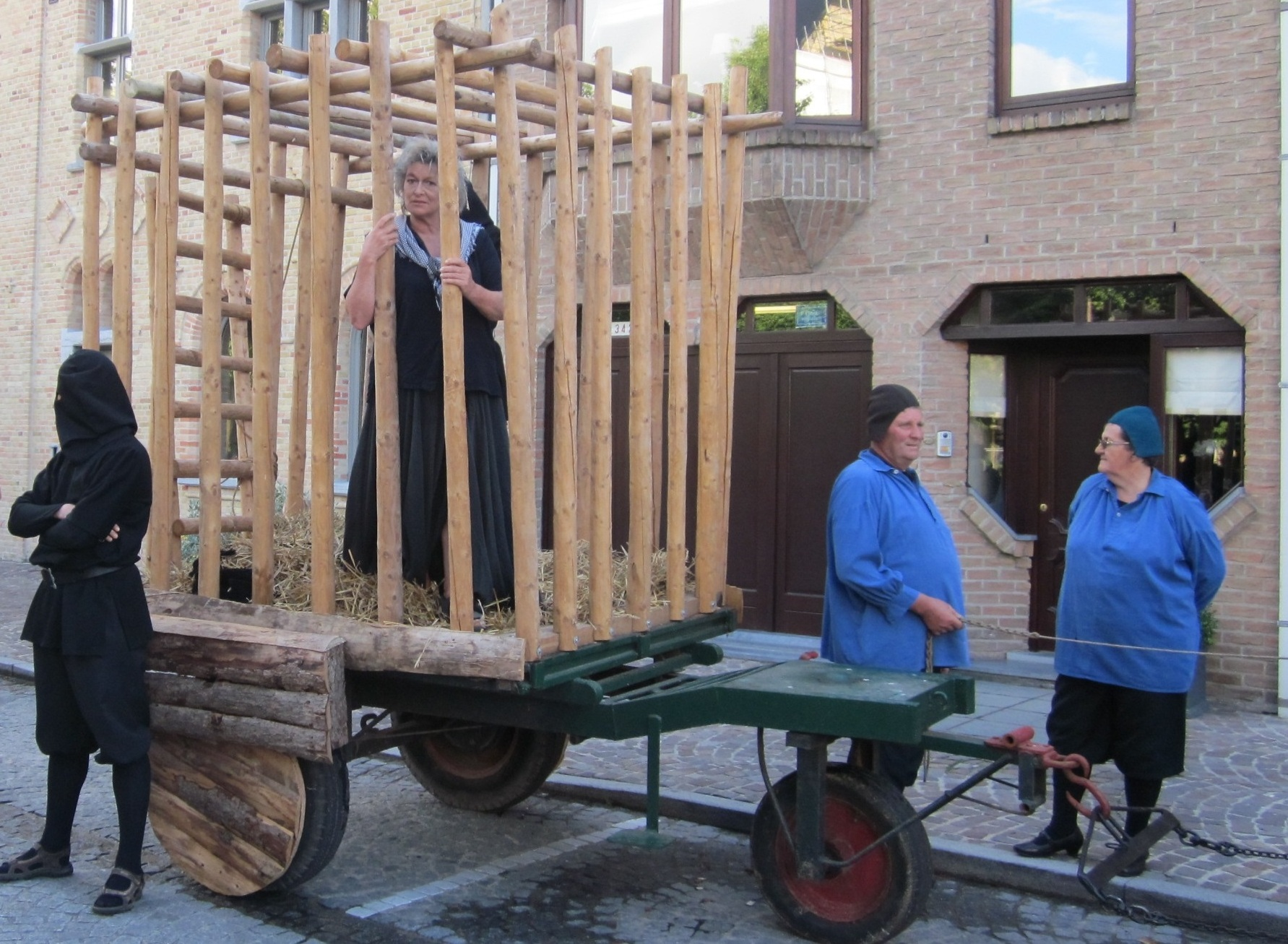 Festival of witches 2012 in Nieuwpoort, Belgium. 'Witch' Jeanne Panne will be burnt at the stake